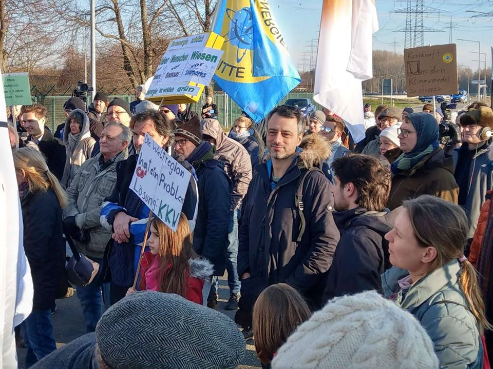 Pro Nuclear Climate Demo Germany